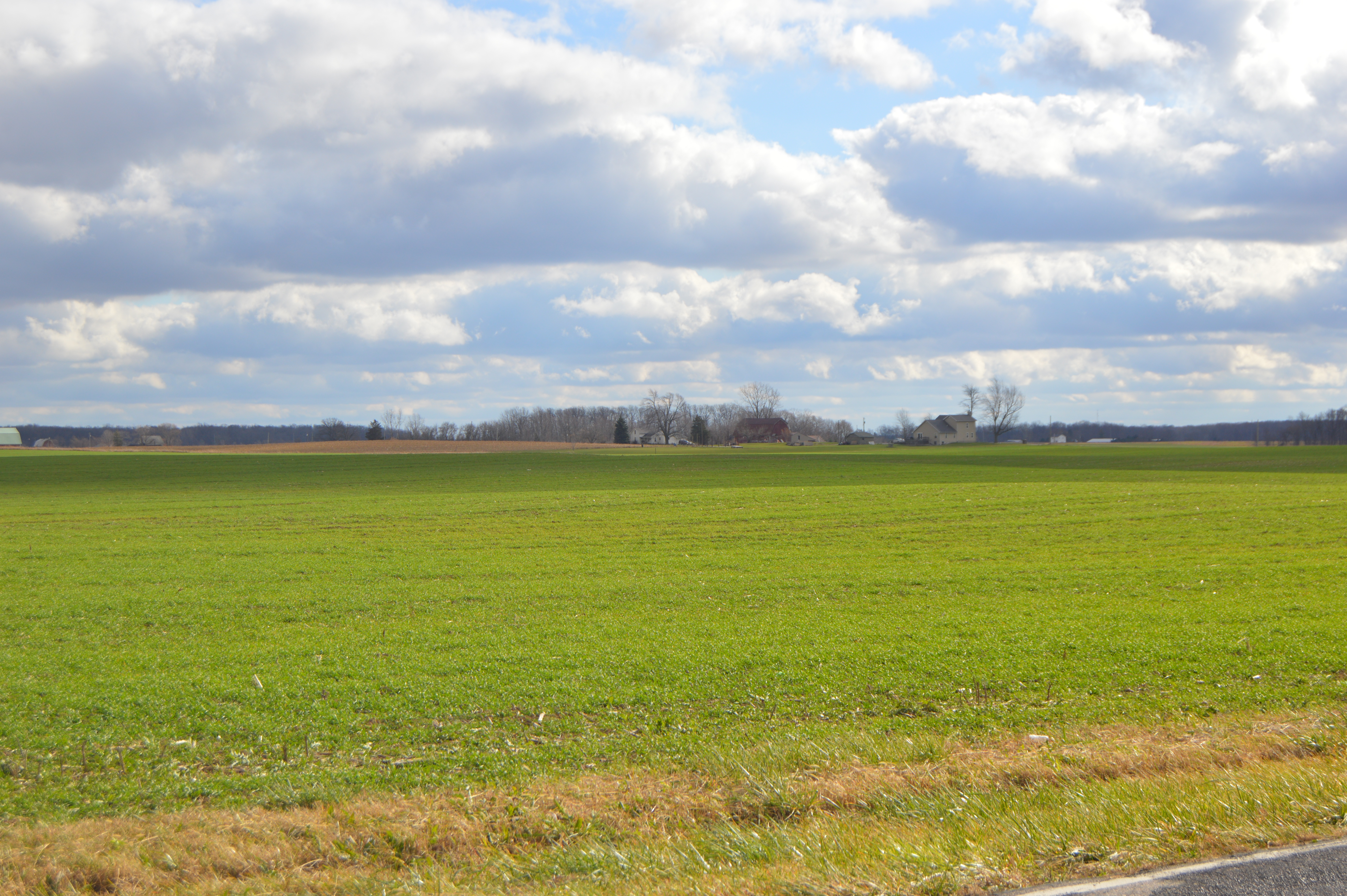 Wheat fields on the eastern side of Road 5 northeast of Edon in Florence Township, Williams County, Ohio, United States.